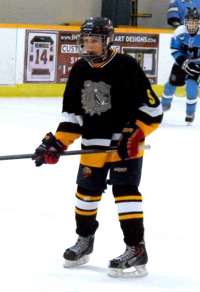 This photo was taken by Devan Mighton during the 2014-15 WECSSAA season.